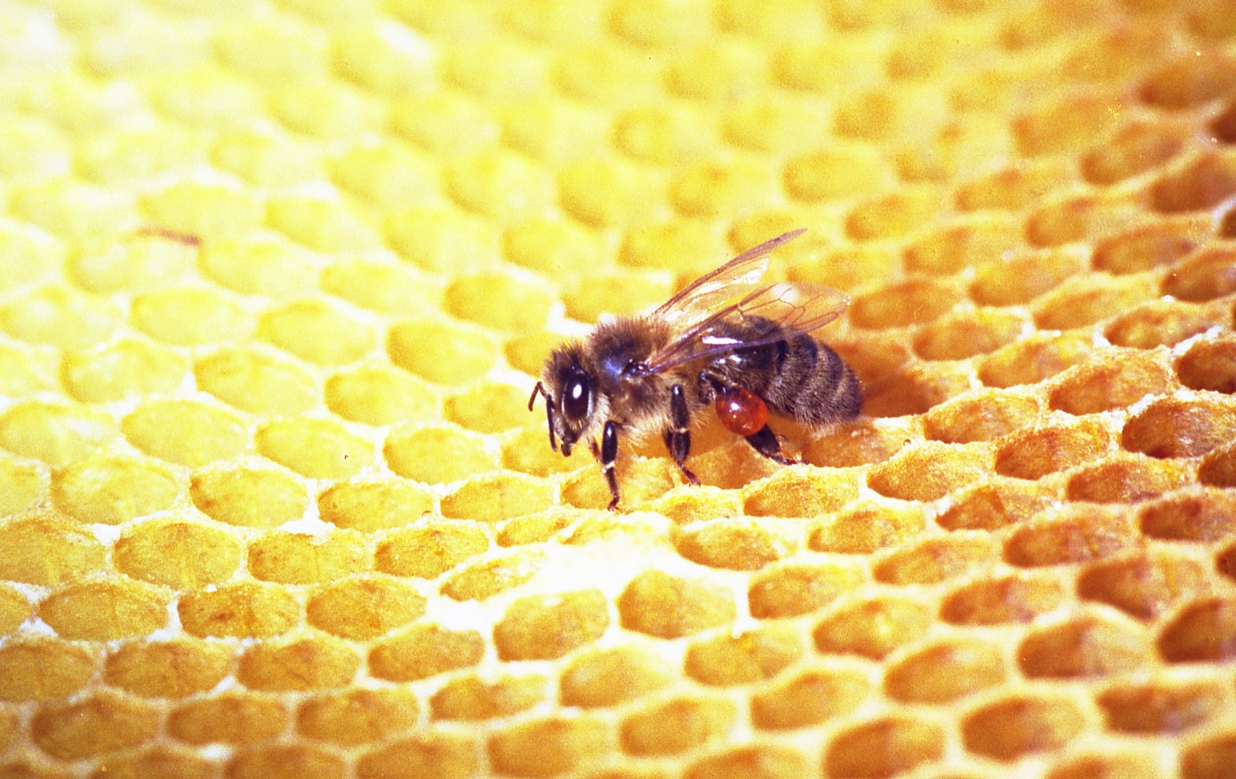 Propolis